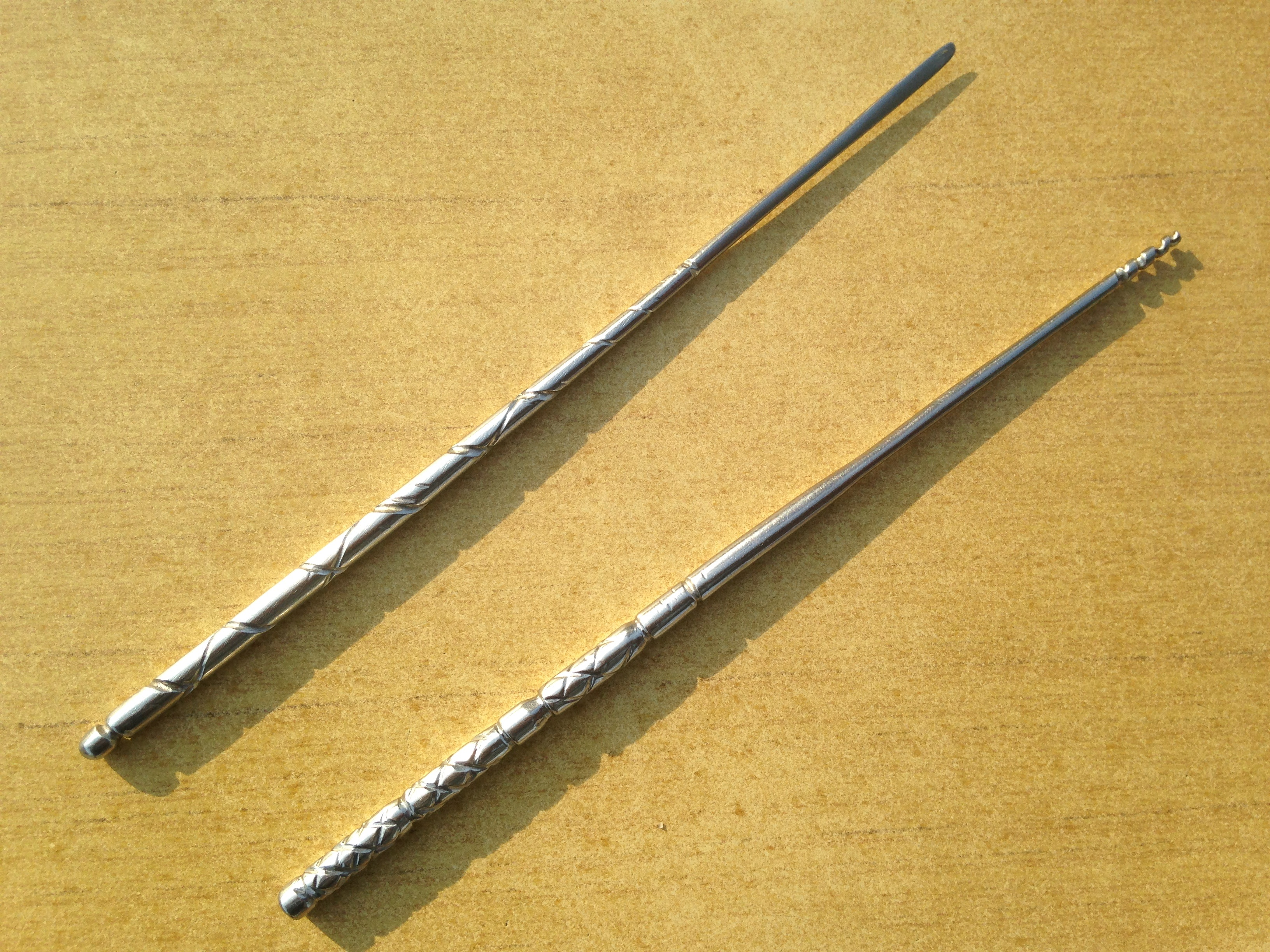 Professional Ear Cleaning Tools